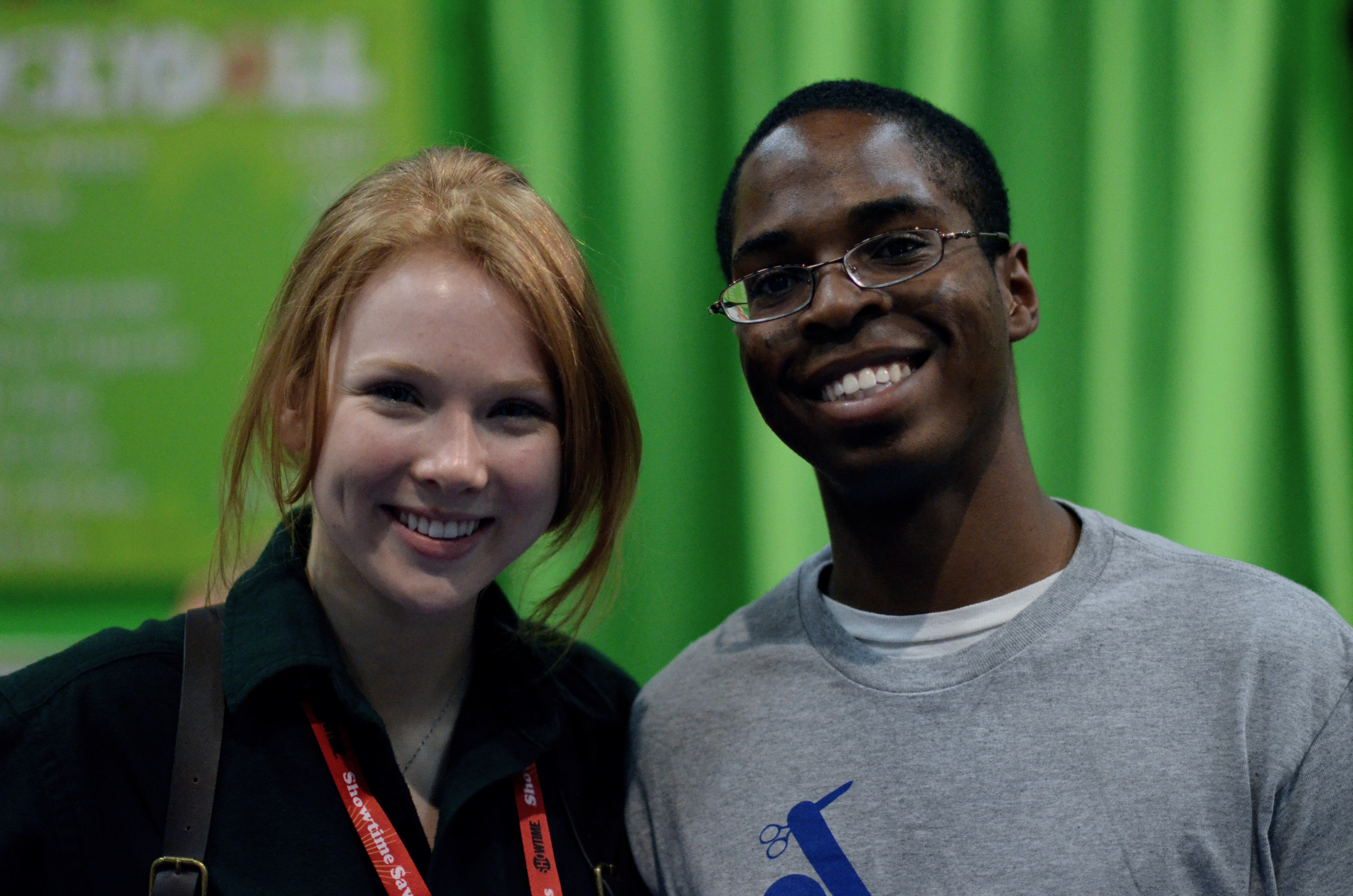 Molly Quinn at the Ugly Dolls booth at Comic-Con in San Diego 2011.